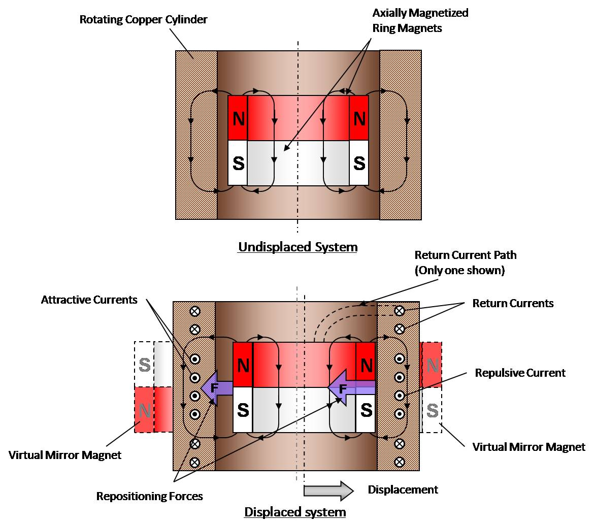 Own created image of magnetic mirroring